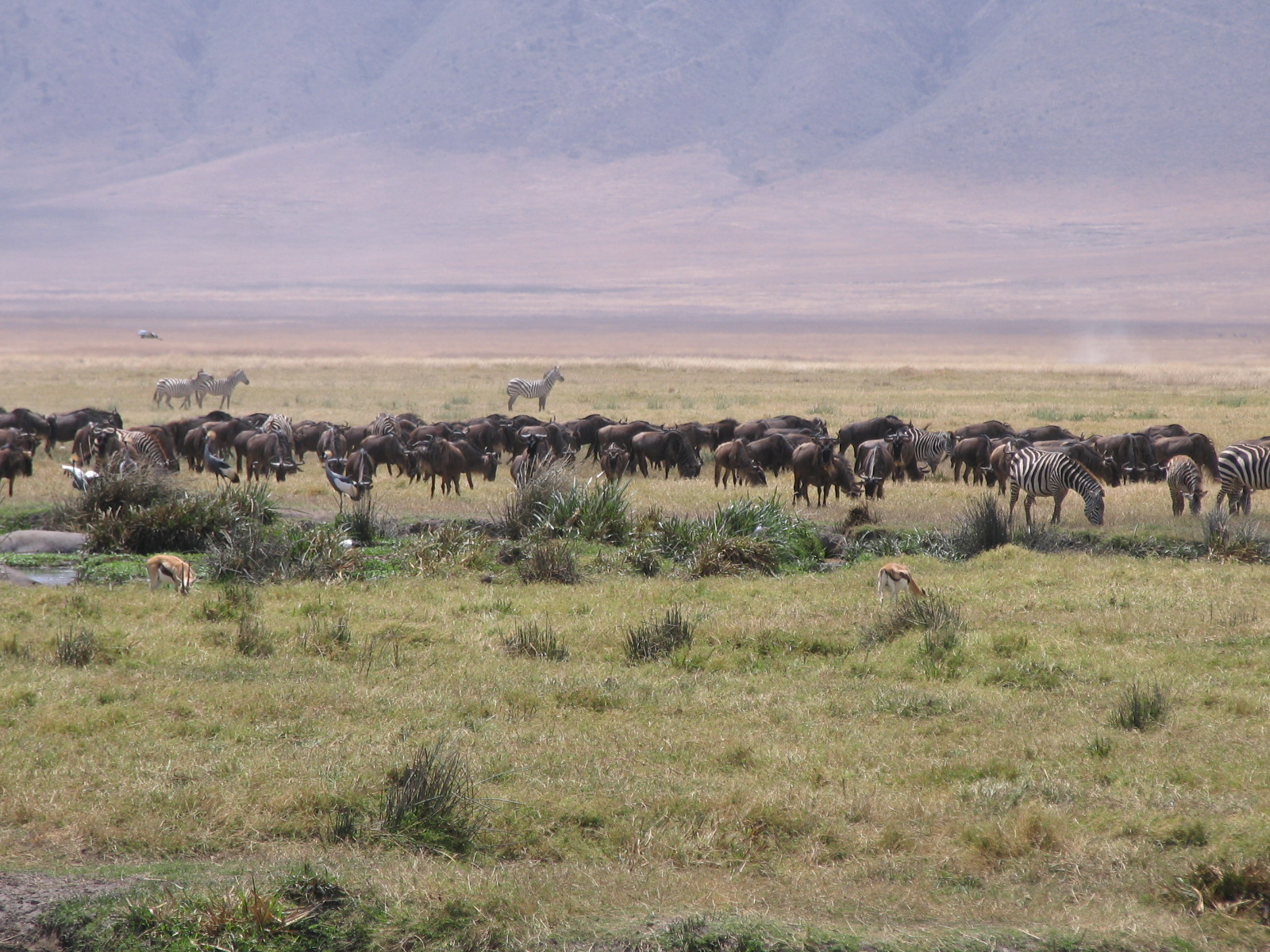 Serengeti National Park (United Republic of Tanzania)